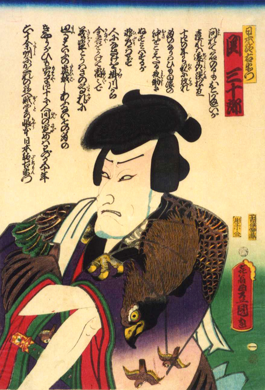 “Sanjūrō Seki III as Nippon-daemon” by Toyokuni Utagawa III